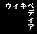 Neon Genesis Evangelion "eye catch"